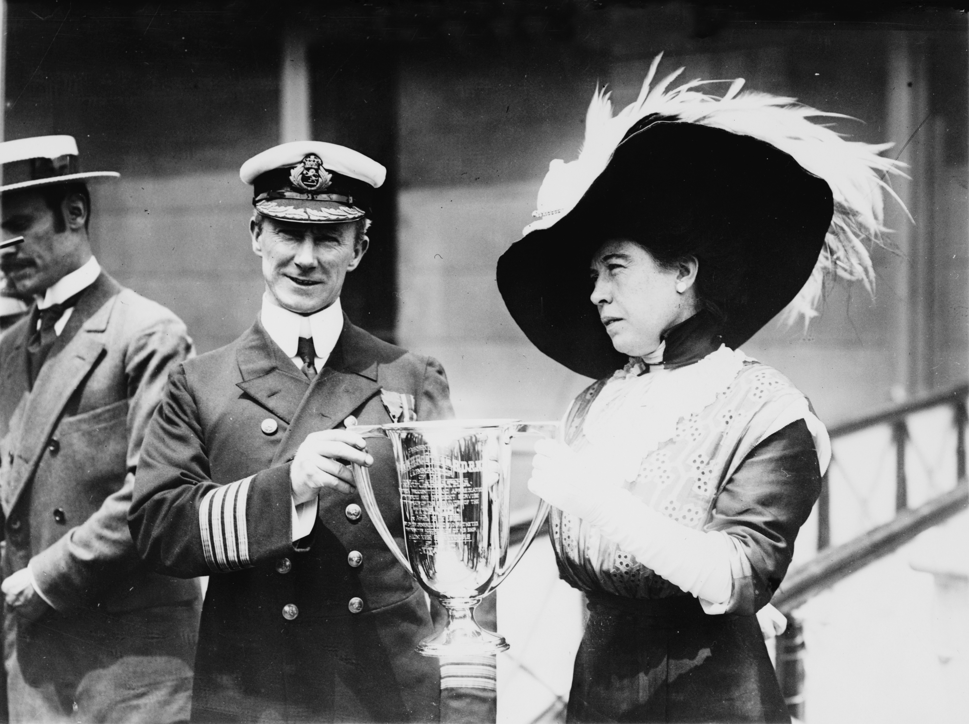 Mrs. J.J. "Molly" Brown presenting trophy cup award to Capt. Arthur Henry Rostron, for his service in the rescue of the Titanic. The committee for the award was chaired by Frederick Kimber Seward.